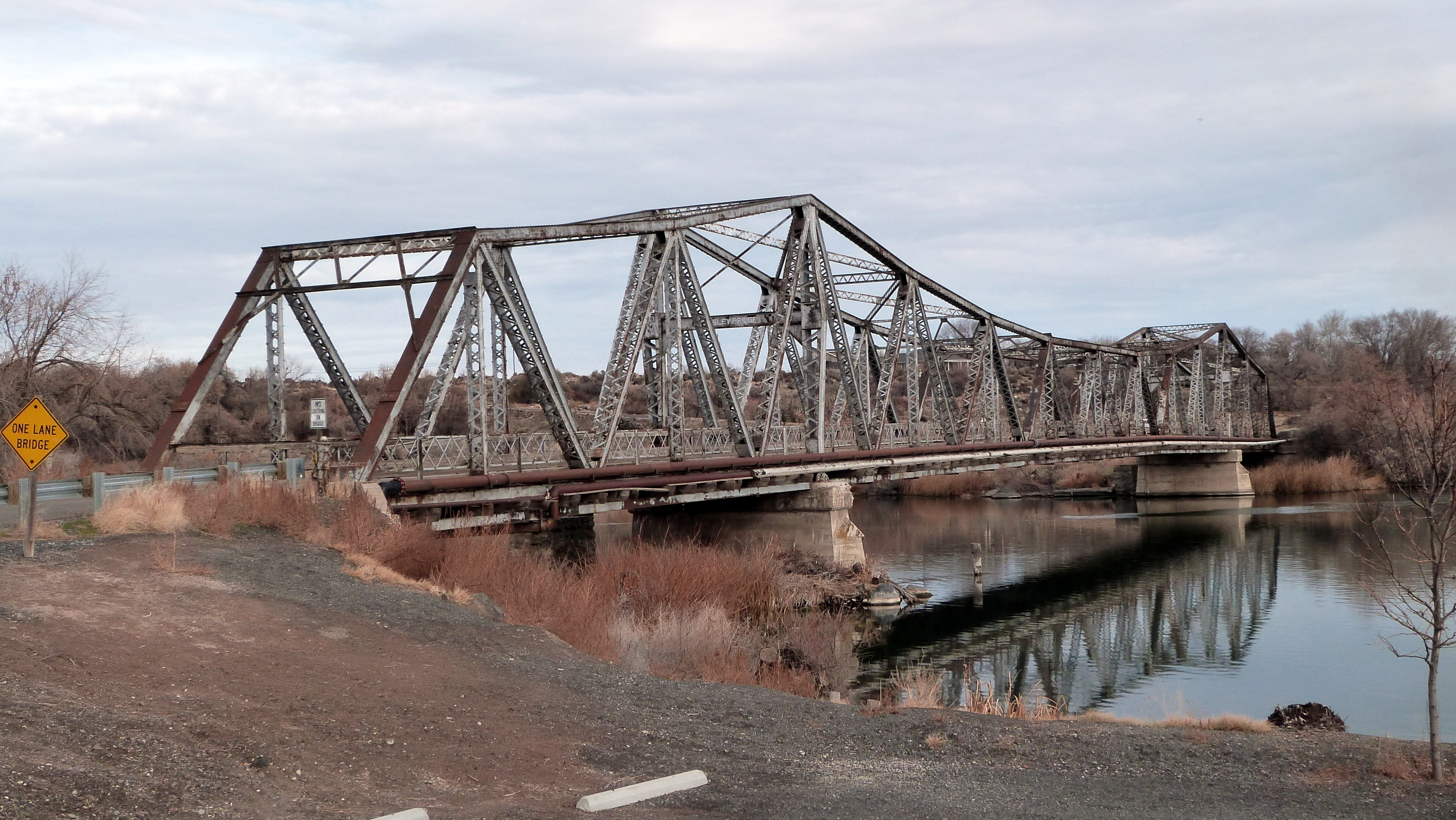 The historic Owsley Bridge (built 1921), spanning the Snake River near Hagerman, Idaho, United States, is listed on the US National Register of Historic Places.